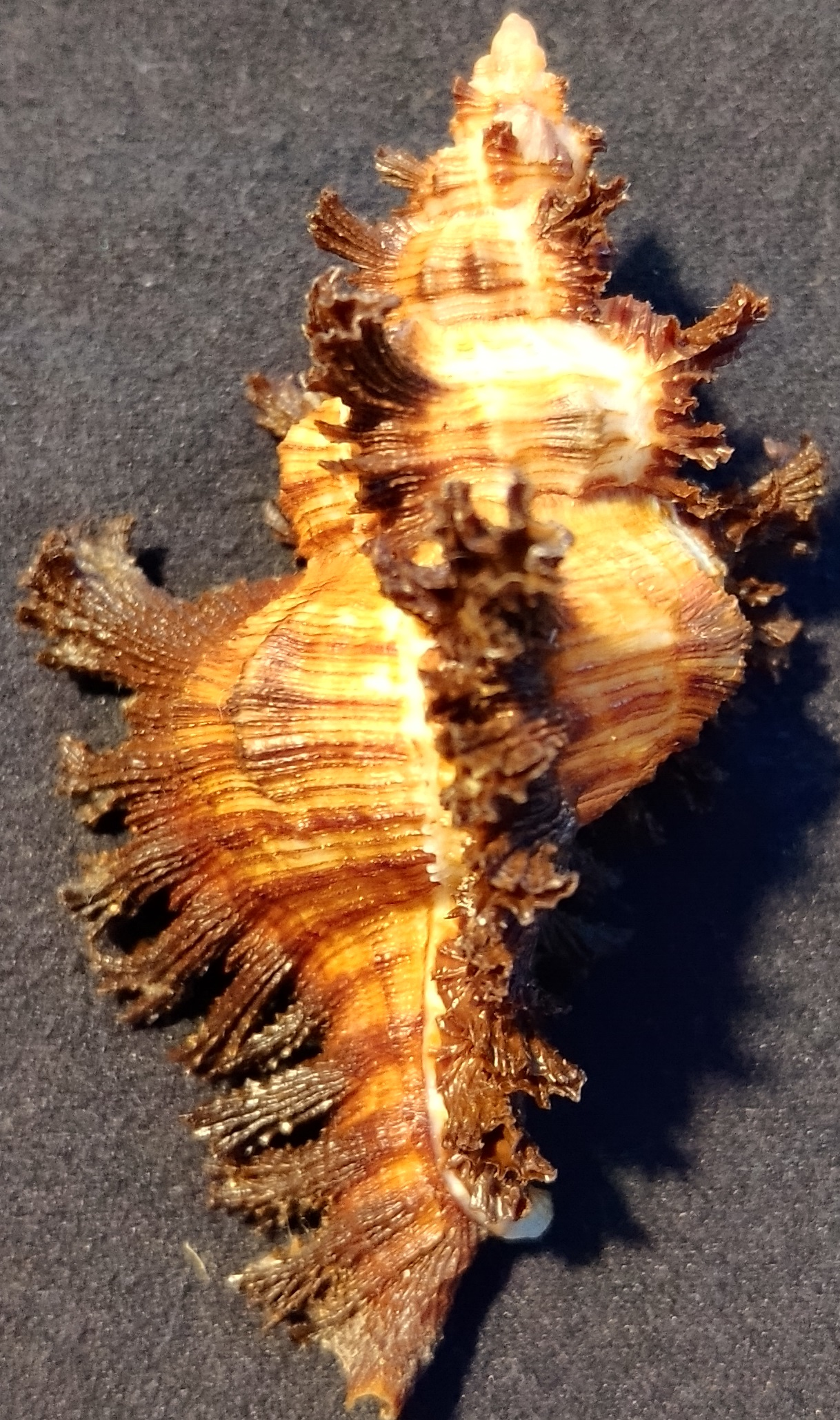 Chicoreus Brunneus Back